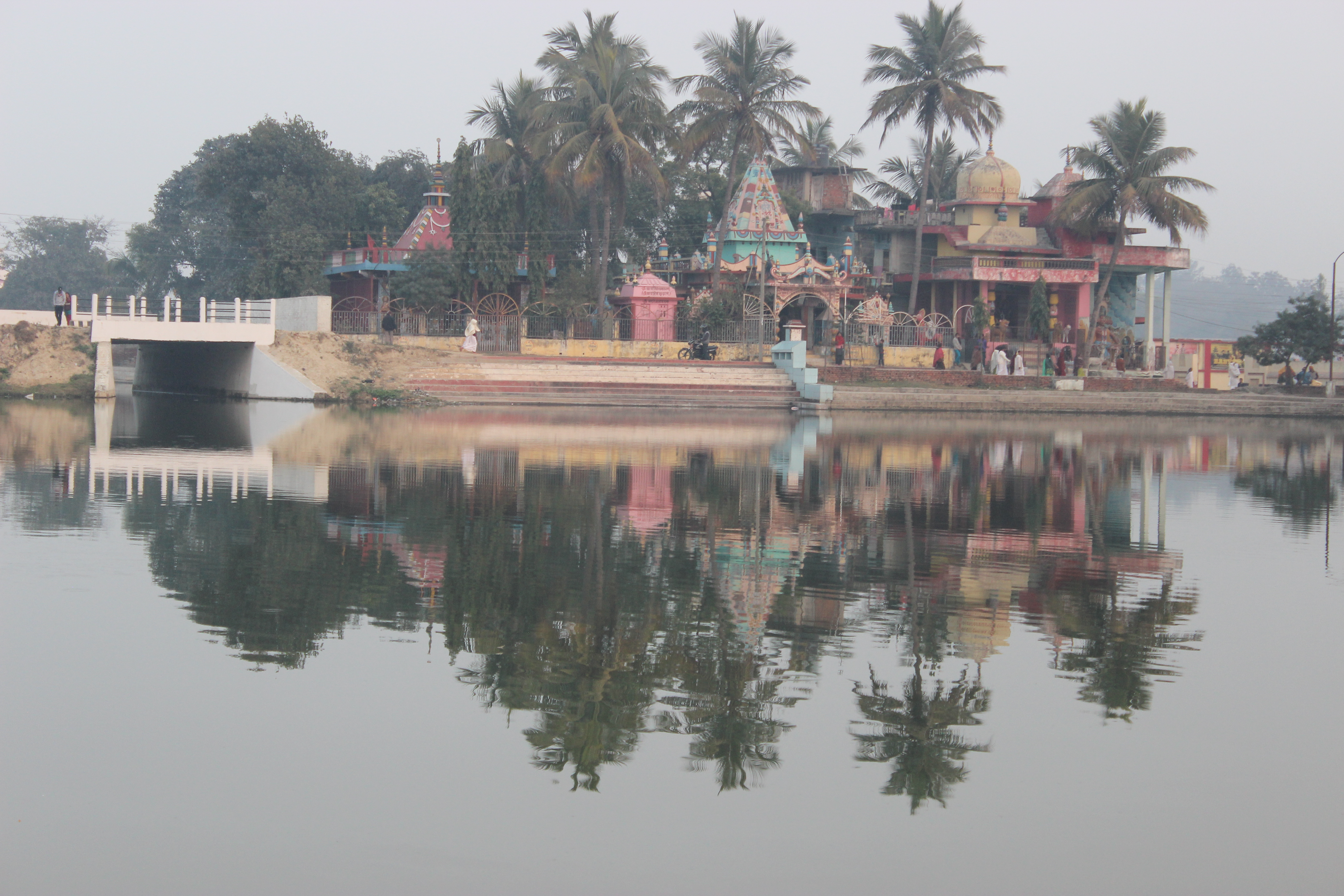 Dhanush Saagar